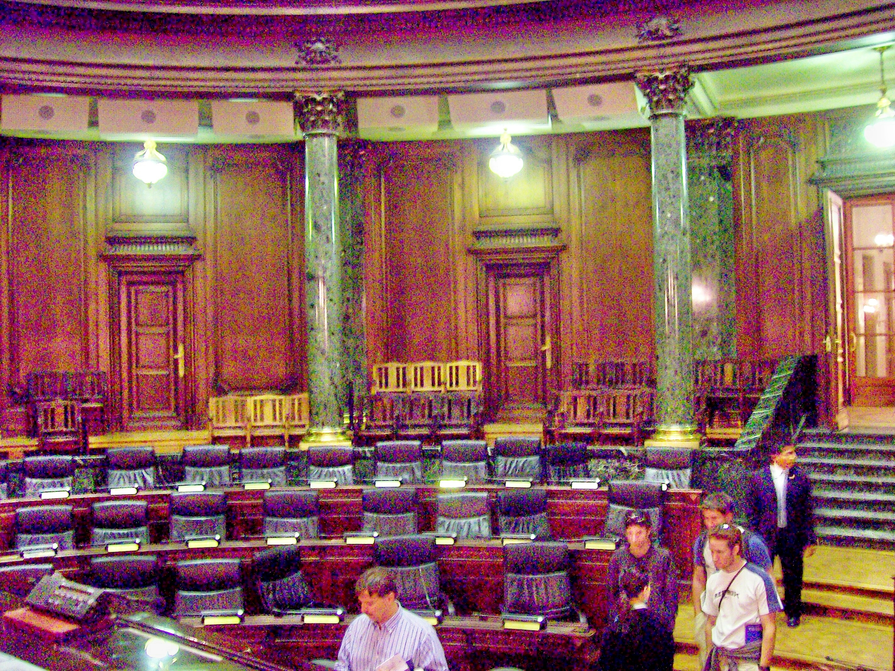 Salón de Representantes, in the Palace of the legislature Buenos Aires, Barrio de Monserrat.